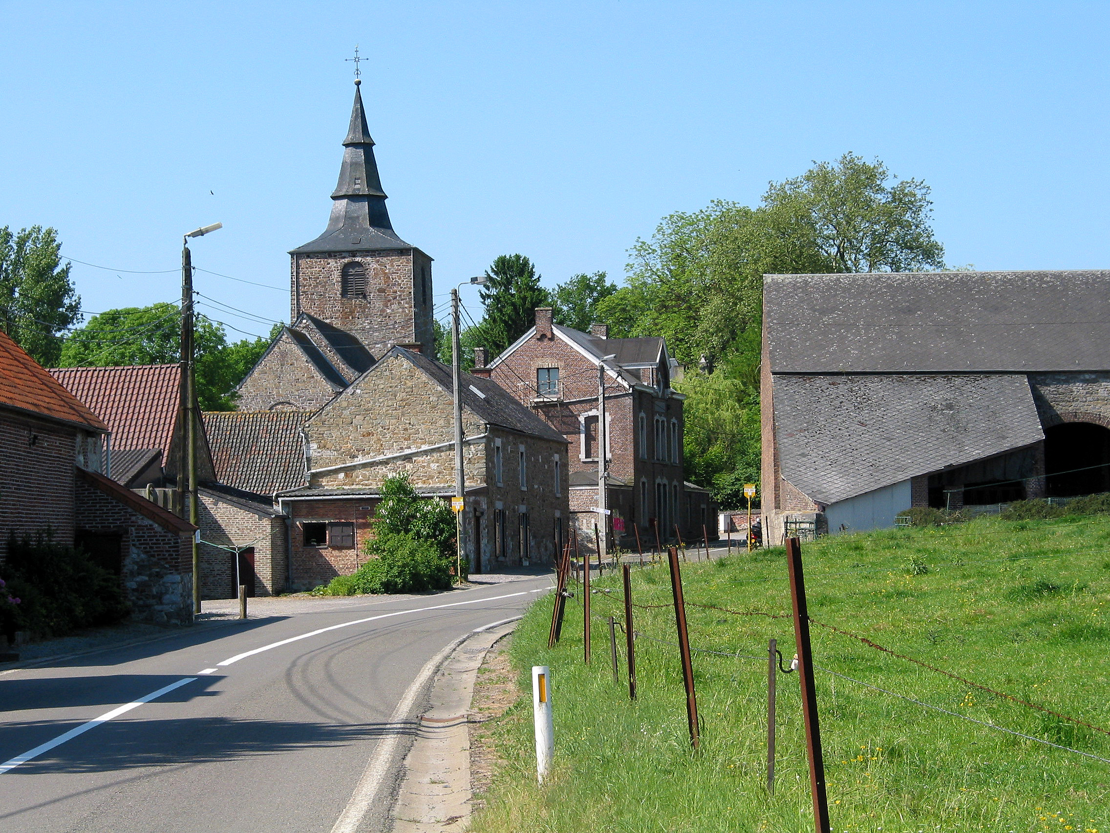 Wierde, the neighbourhood of the Notre-Dame du Rosaire church.